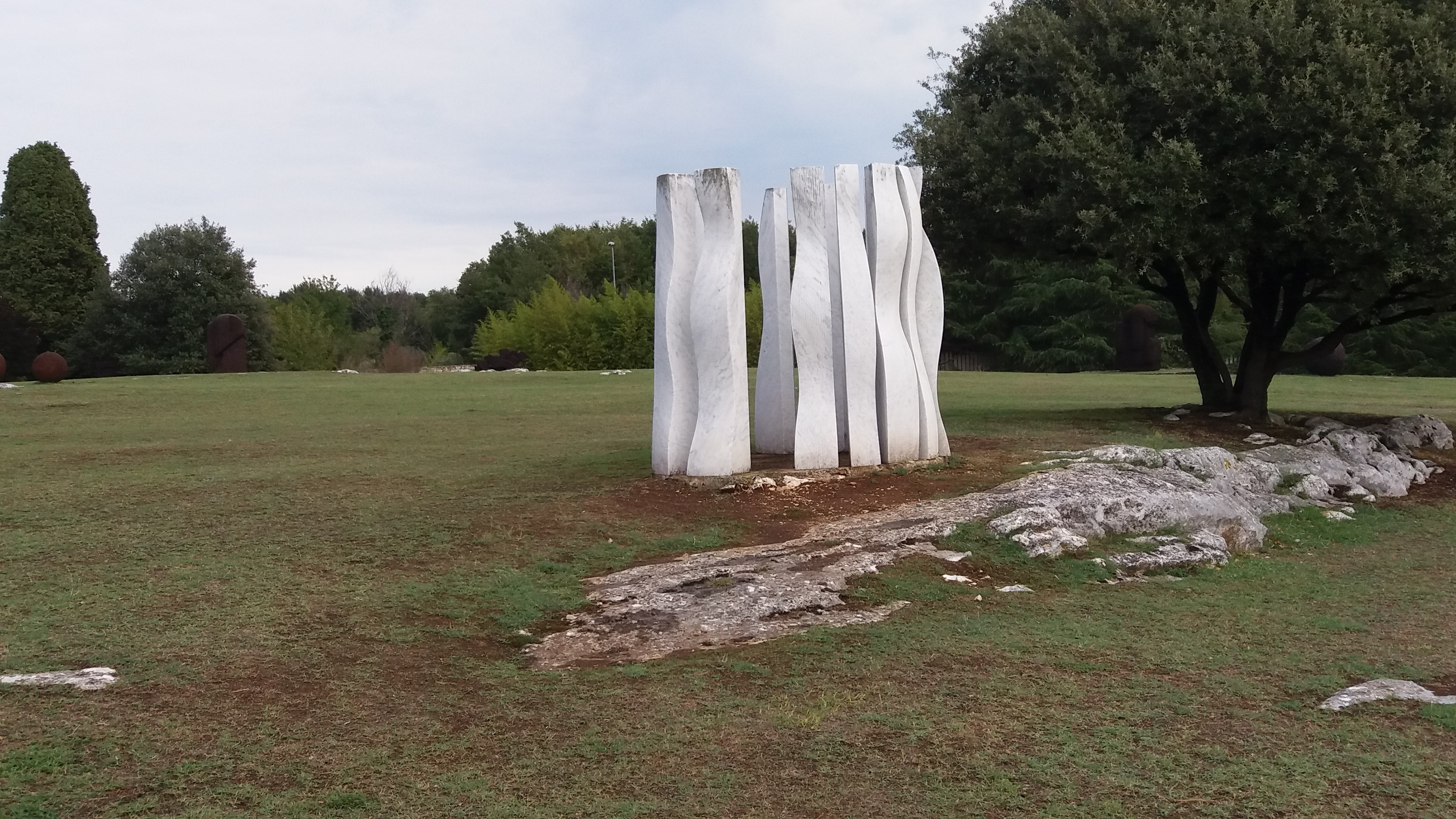 Dušan Džamonja’s Park of Sculptures